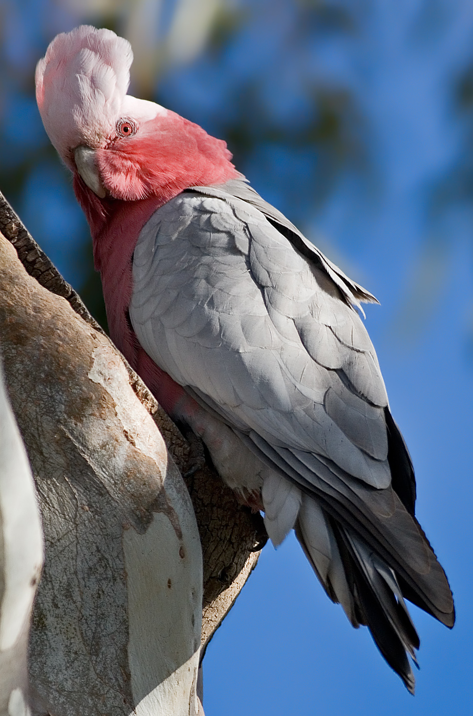 A Female Galah (Eolophus roseicapilla) displaying her crest outside her nest in Tasmania, Australia.